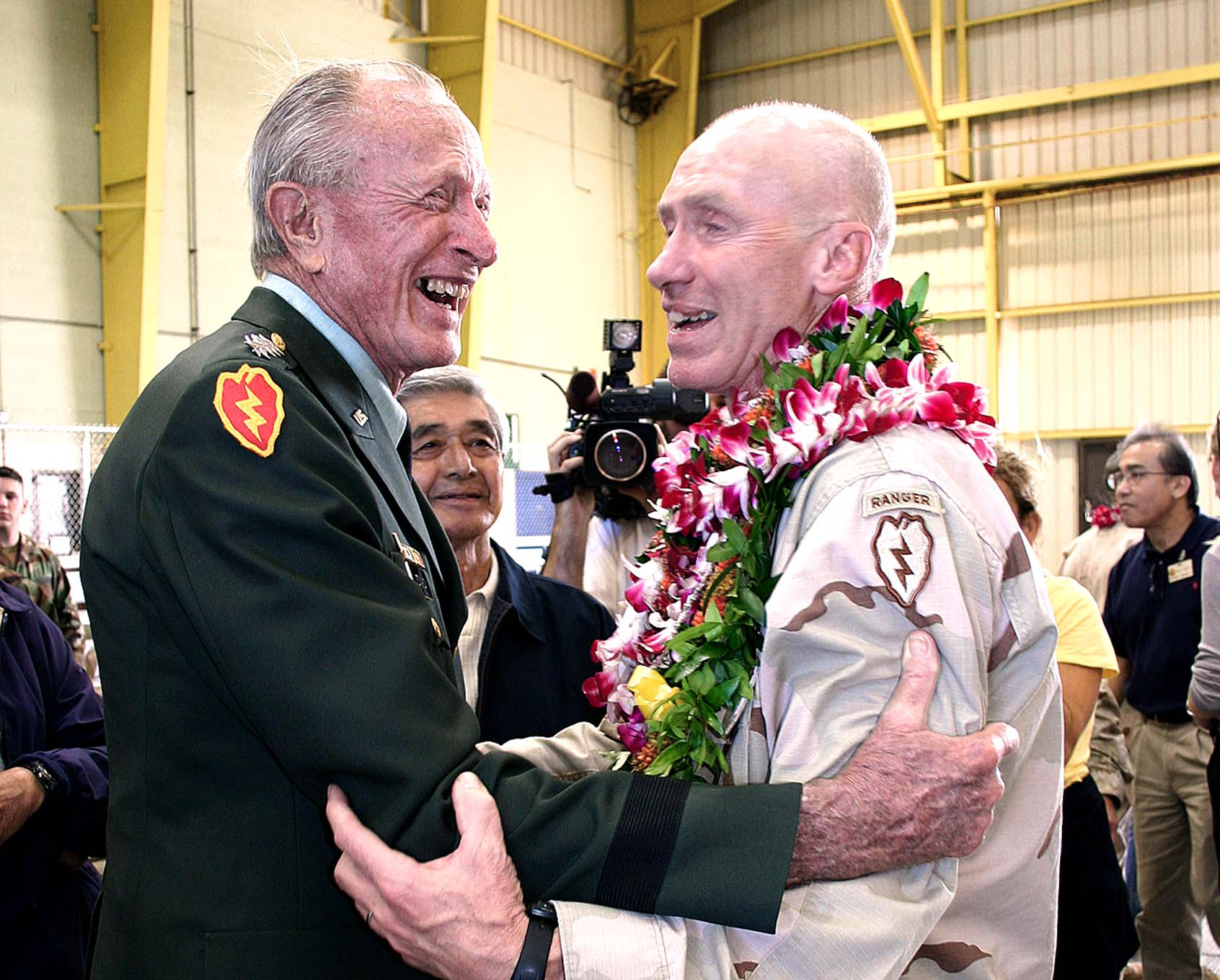 General Frederick C. Weyand